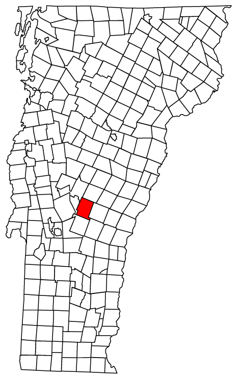 Description: Map of Vermont towns with Stockbridge highlighted Source: Map created by Jared C. Benedict on 26 March 2004. Copyright: © Jared C. Benedict.